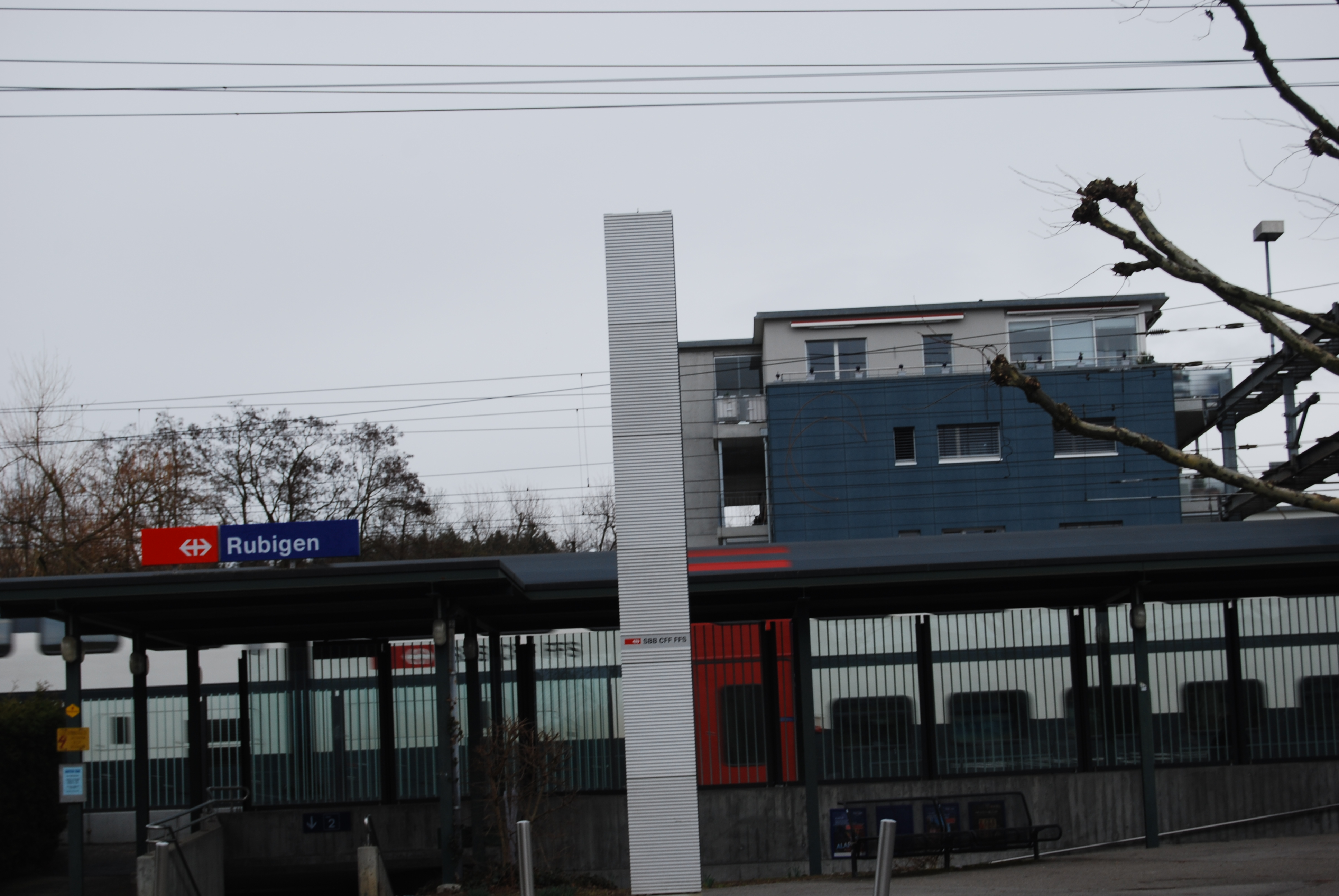 Train station of Rubigen, canton of Bern, Switzerland